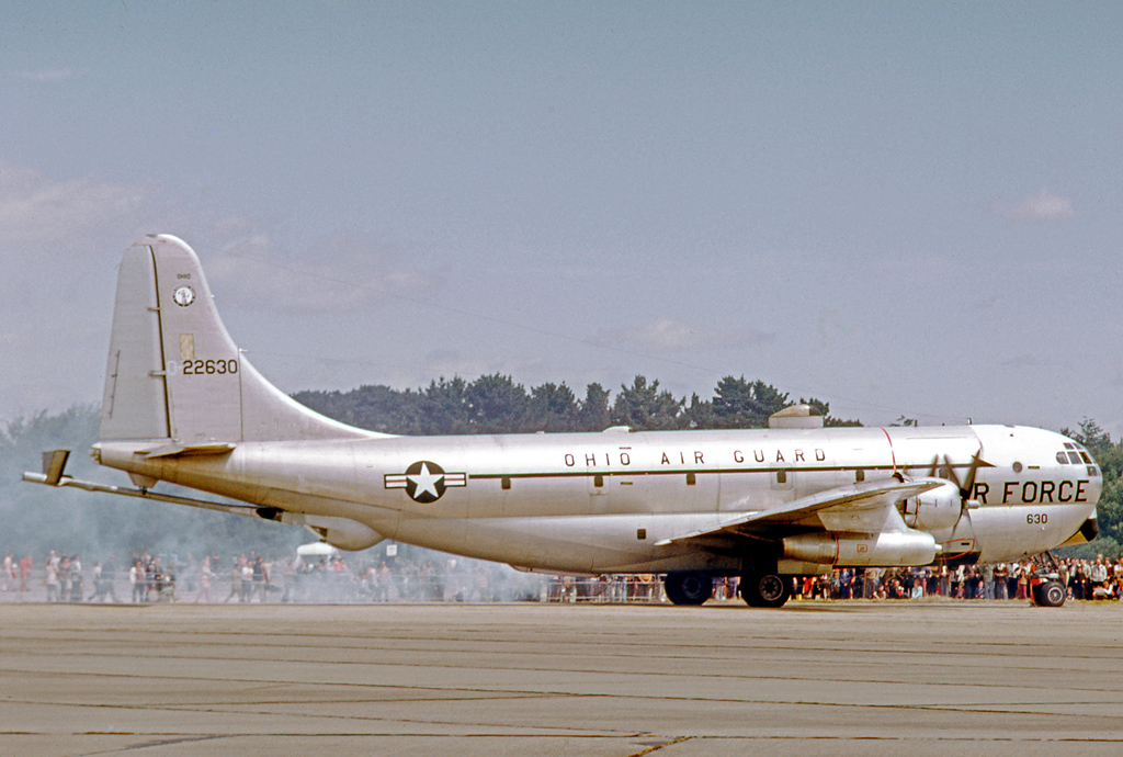 Boeing KC-97L Stratotanker of 160 ARW Ohio Air National Guard in 1974